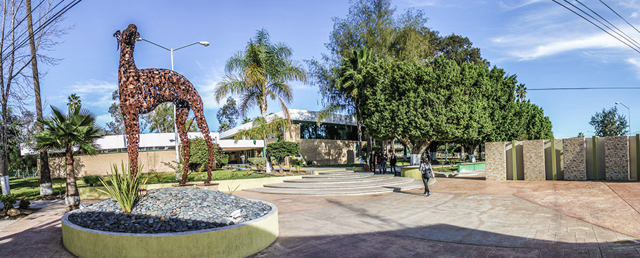 entrance of the Technological Institute of Tijuana